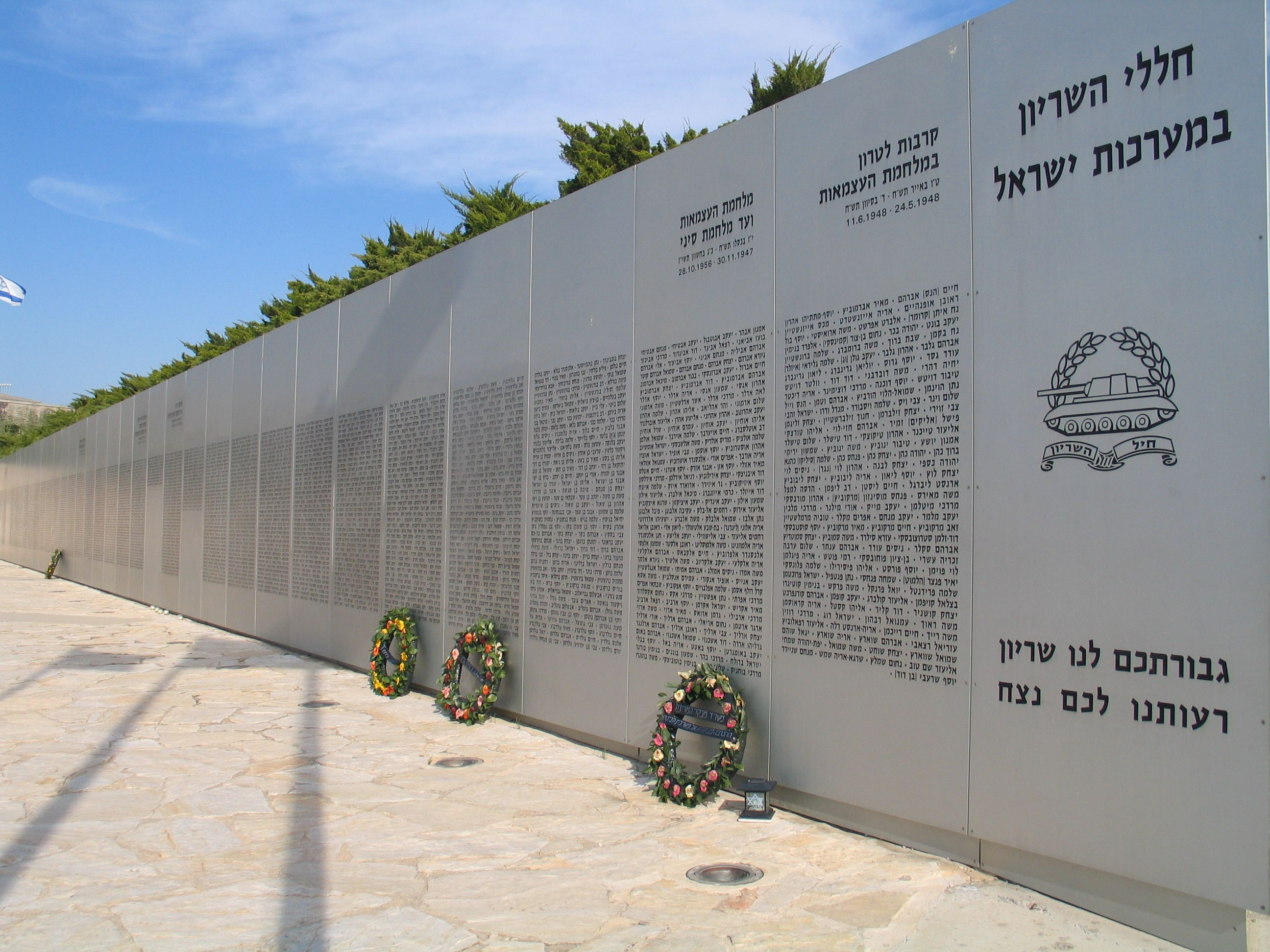 Yad la-Shiryon Museum, Israel.